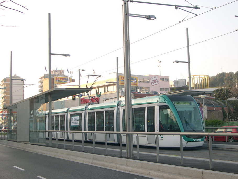 Test of Trambaix in 5th feb 2004 in Esplugues de Llobregat